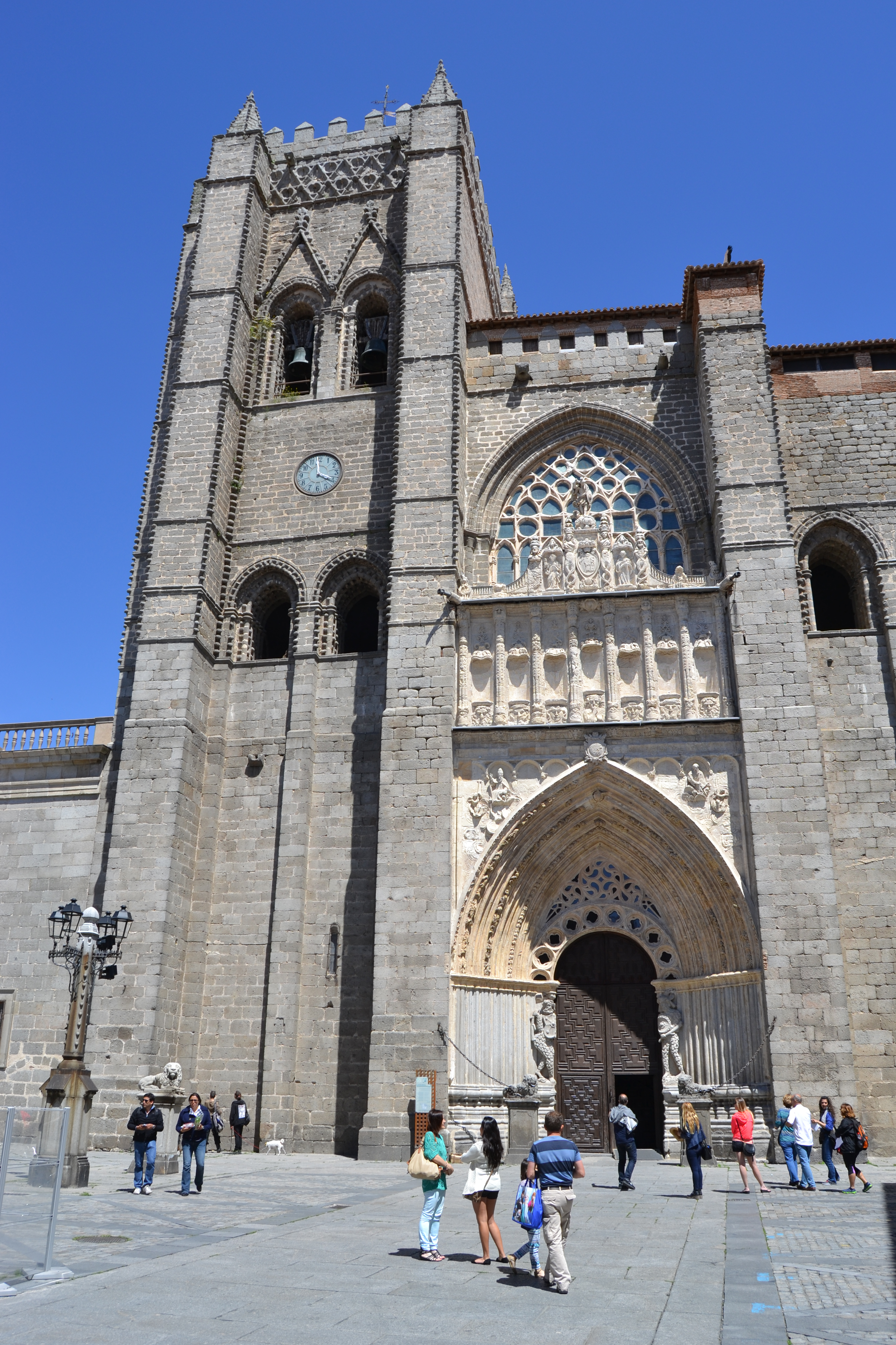 Cathedral of Ávila, Spain